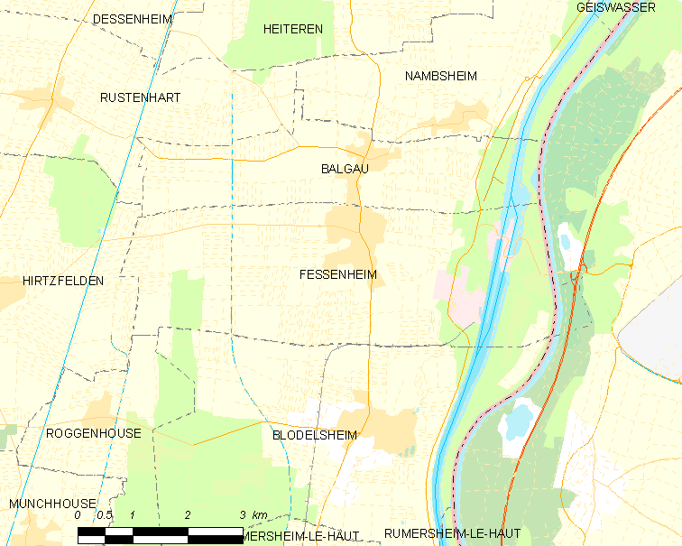 Map of French municipality